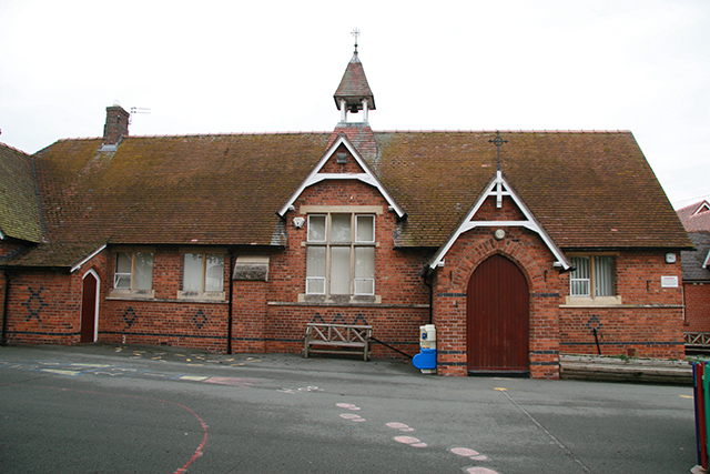 Calveley School. A very attractive little school situated right out in the Cheshire countryside surrounded by fields.